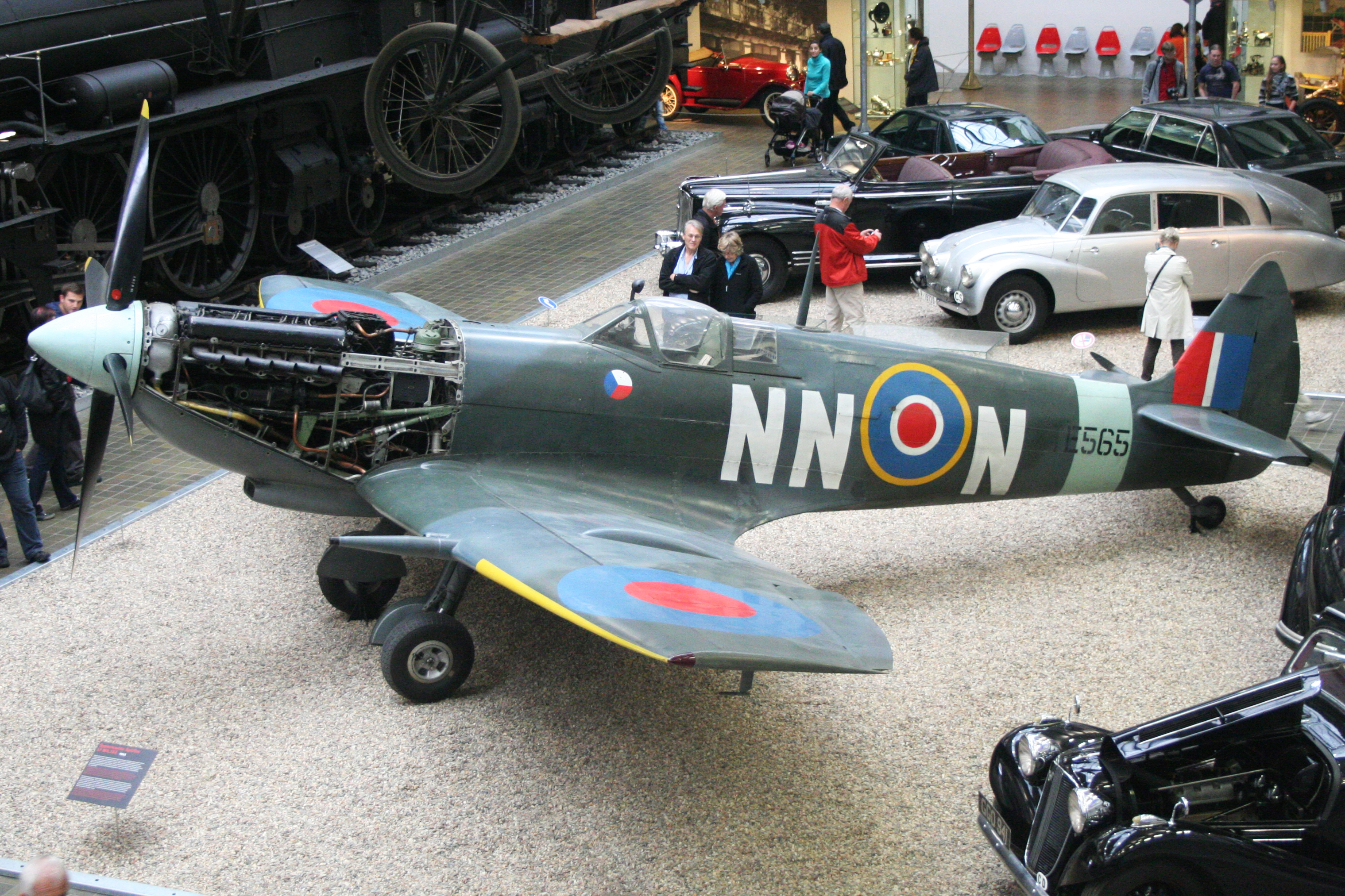 Built at Castle Bromwich, this Spit was delivered directly to 310(Czech) sqn and coded 'NN-N', before transfering to the Czech AF in 1945 as 'A-712'. Passing to the Technical museum in 1950, it was displayed here until 1970 when it moved to the Air Force museum at Kbely. It has only recently returned here. msn CBAF.11397. National Technical Museum, Prague. Czech Republic. 07-10-2012